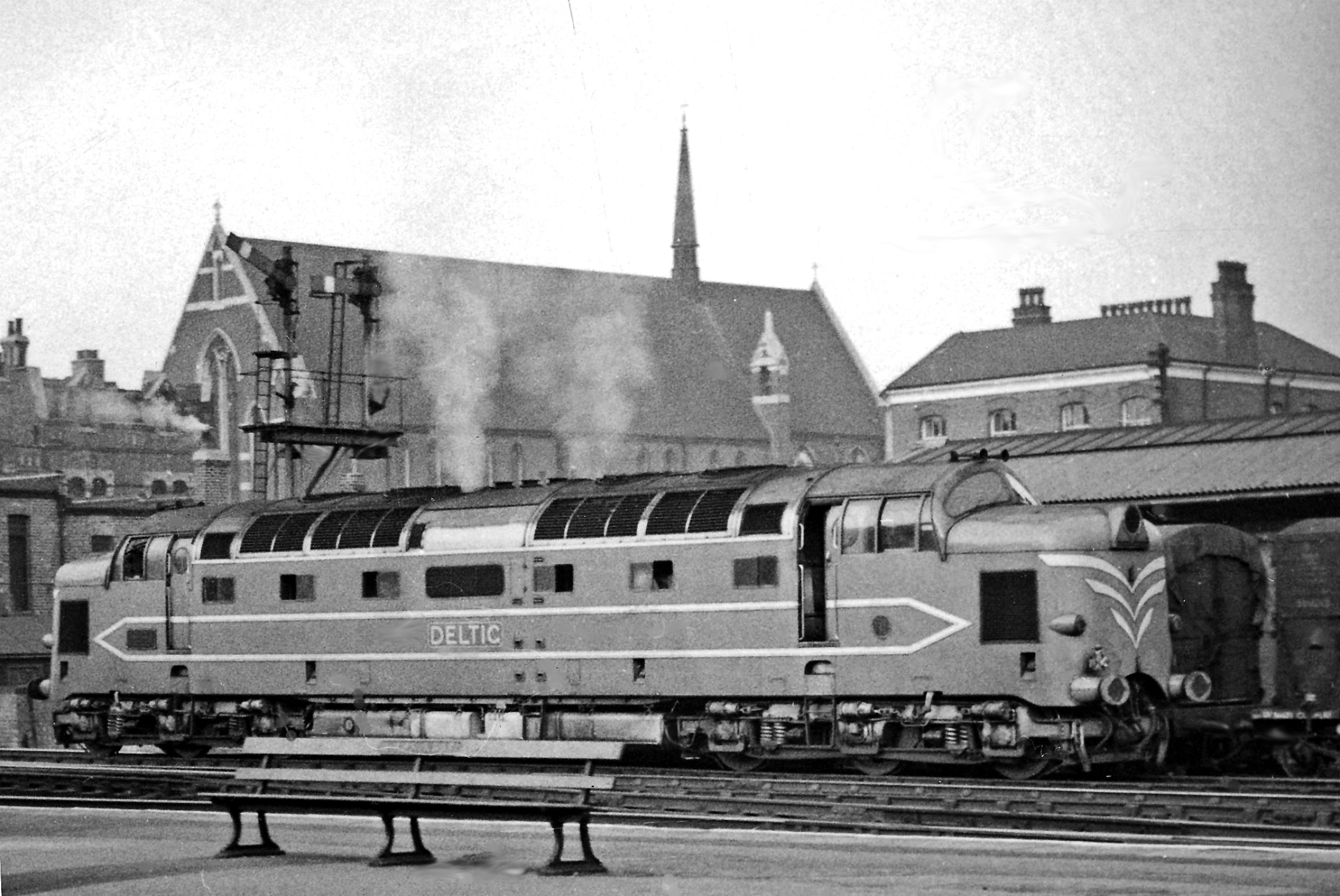 'Deltic' at Harringay West station. View eastward from the platform, ECML. This was the impressive prototype of the English-Electric/Napier 3,300 hp Co-Co express locomotive (later Type 5, Class 55), on trial on the ECML in 1959, well before the the class began regular service between King's Cross and Edinburgh in 1963, ousting the Gresley A4 steam locomotives. (Finsbury Park Diesel Depot had not been built, so Hornsey Depot had to service the 'Deltic, and later the other early Diesels).